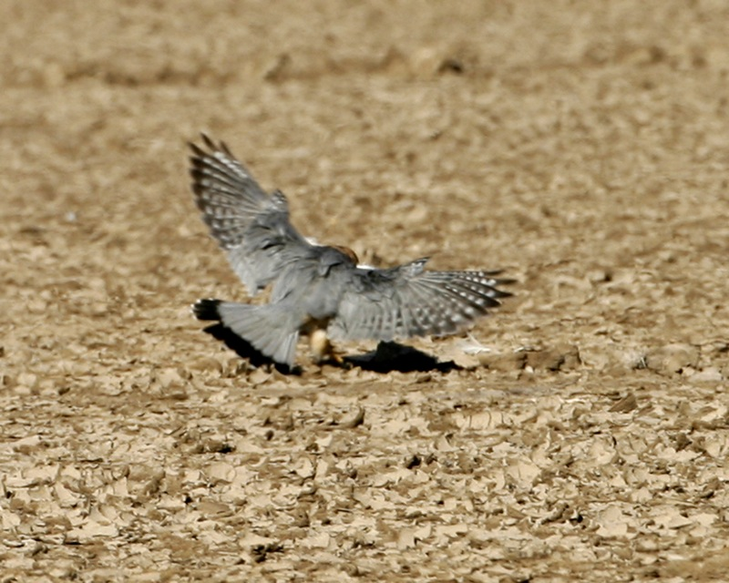 Merlin Falco columbarius; Little Rann of Kutch , Gujerat, India